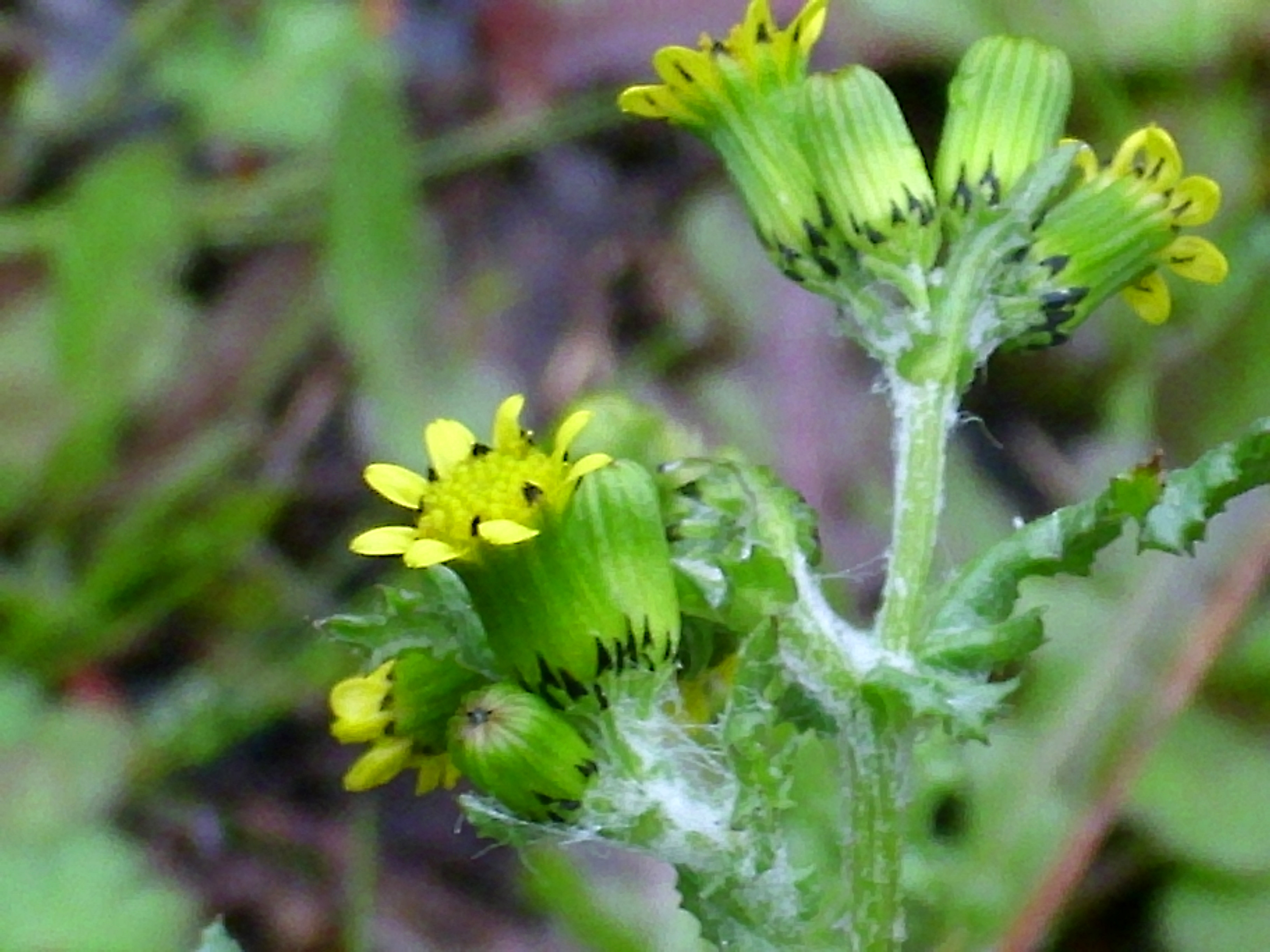 Senecio vulgaris close up, Sierra Madrona, Spain.